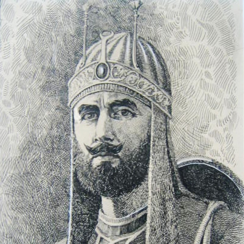 Sher Shah Suri, founder of the Sur Empire in northern India in the 16th century. He defeated the powerful Mughal Empire under Humayun but died 5 years later due to an accident while loading a cannon. He was an ethnic Afghan (now Pashtun) but was born in what is now India.